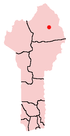 Kandi, Benin Location Map; created with the GIMP. Made by User:Acntx.